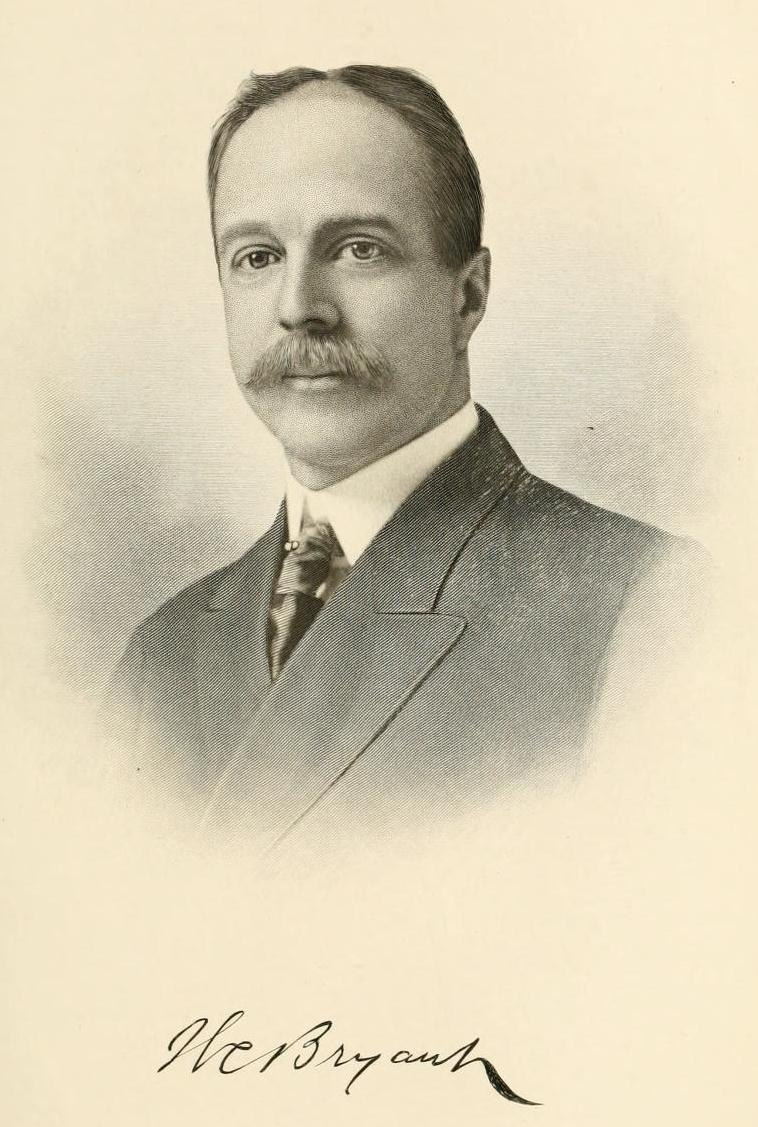 Book engraving of photograph of Waldo Calvin Bryant, inventor, electrical engineer, and founder of the Bryant Electric Company, in Bridgeport, Connecticut, USA.